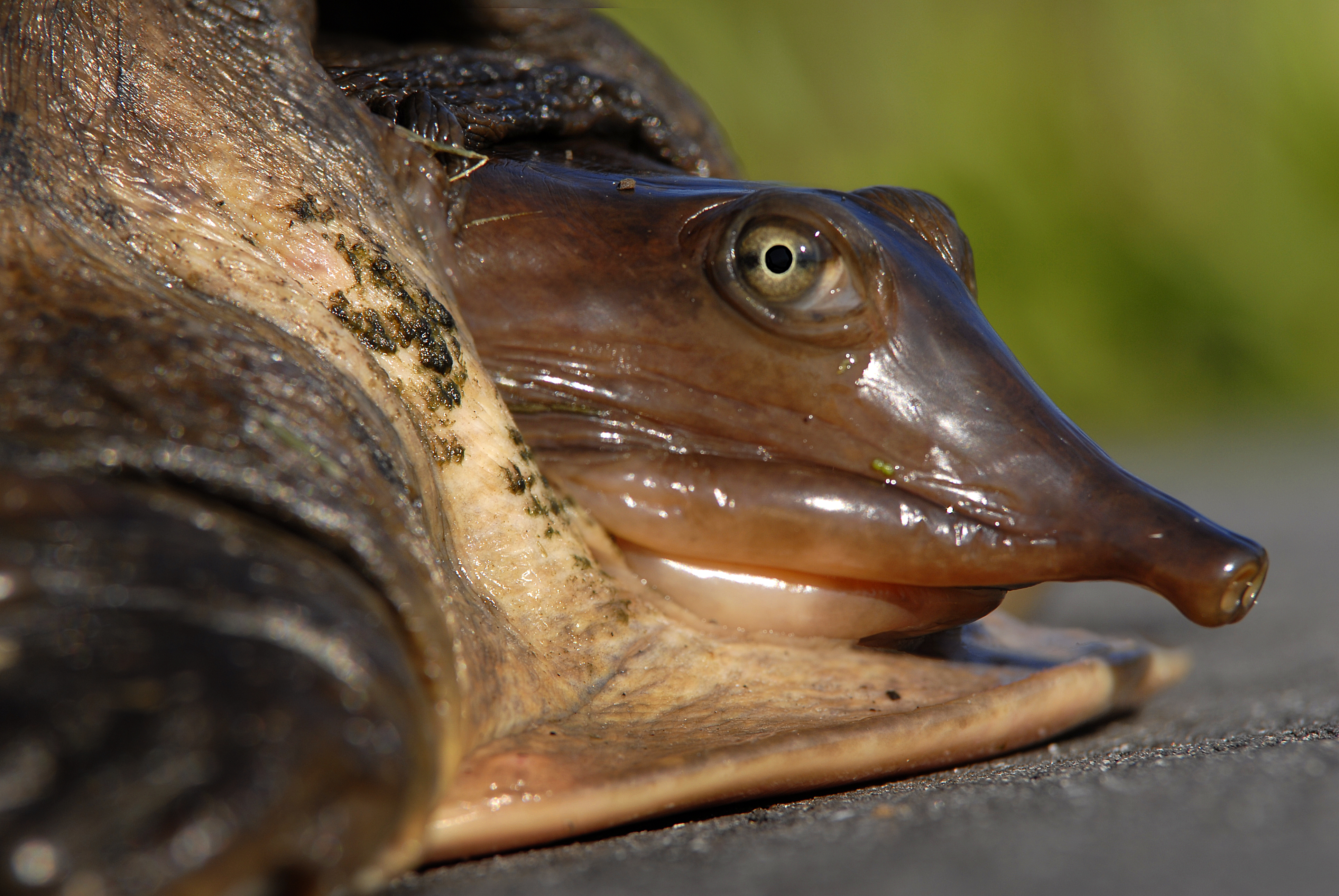 I found this Florida Softshell Turtle as I was leaving Lake Woodruff. I am happy to report that the Florida Fish and Wildlife Commision has finally banned the commercial harvest of freshwater turtles in state waters. This note was added to the photo description on 06/22/2009 Well, most of the beautiful wading birds are gone. The canals are full of water again but it will take a while before the fish and snails are replenished after the spell of severe drought Lake Woodruff wetlands suffered. I saw one Great Blue Heron staring intently at the water and later there was one small alligator. Lots of frogs, bugs and some turtles were around. If I had the time to go much further back to the deeper canals I'm sure I would have seen more in the way of gators and some birds. I probably won't be going to this area much again until the summer heat is past.